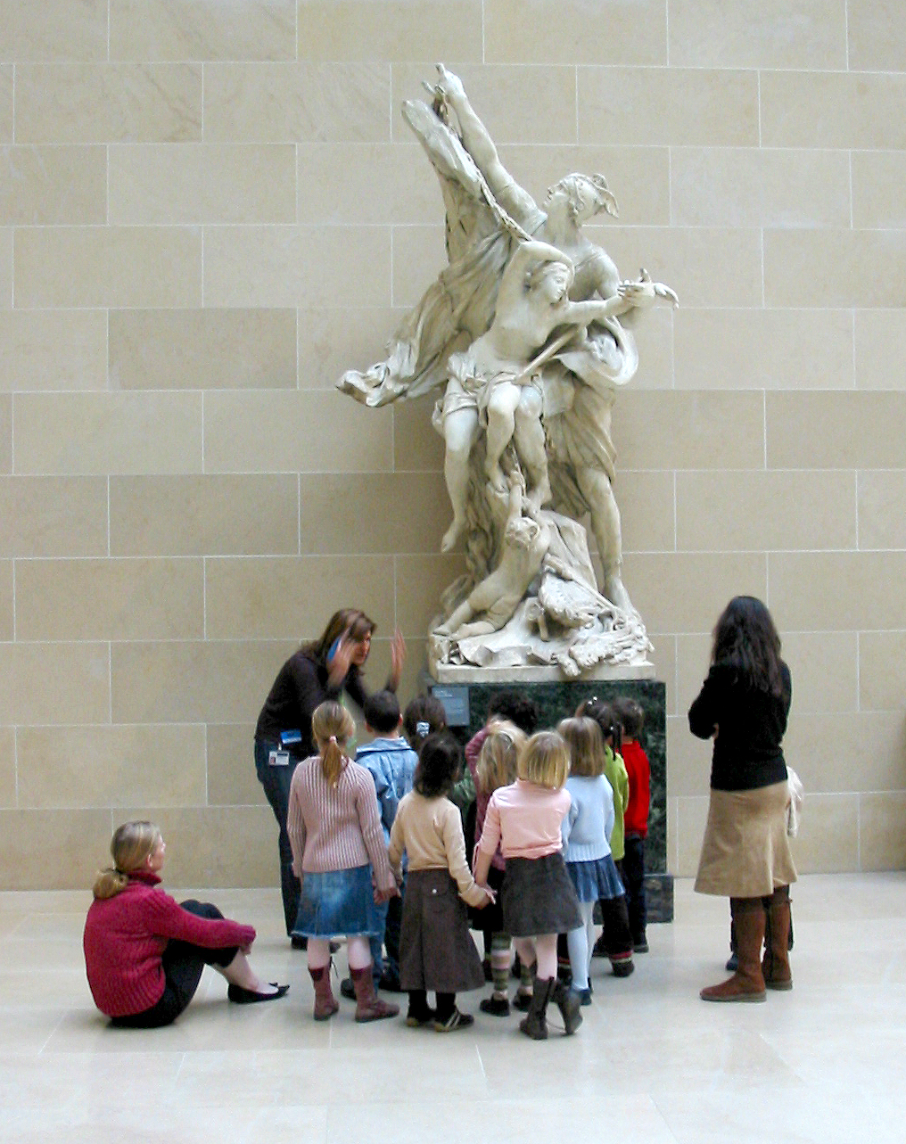 School (or kindergarden) children with their teachers in Louvre.